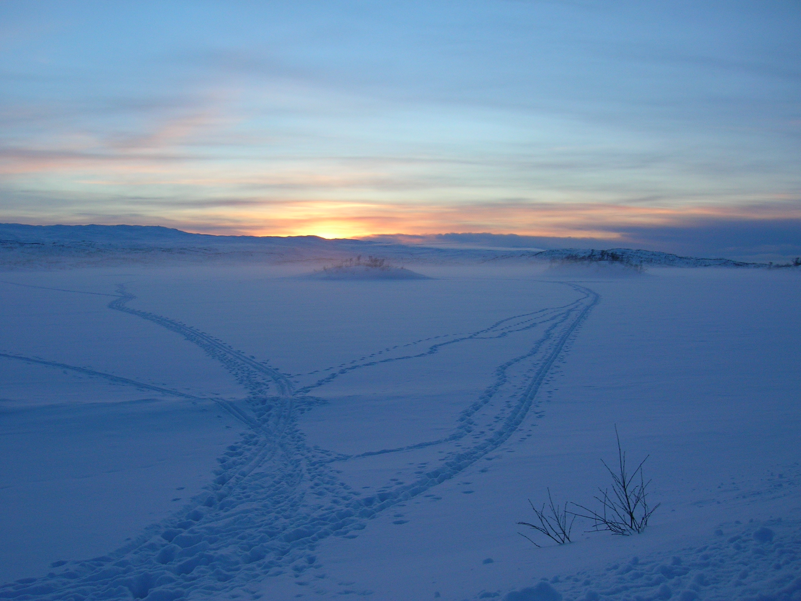 Raudvatnet wintertime. Rana municipality, county of Nordland, Norway. Photo 27 February 2006 with a Nikon Coolpix 5600 5,1 Megapixel camera.